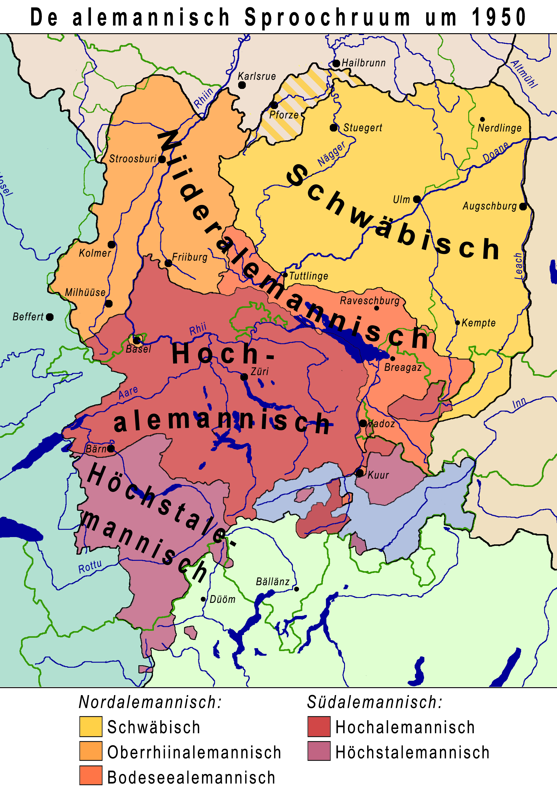 The Alemannic speech area, based on the division made by Karl Bohnenberger. The isoglosses have been corrected based on the dialect surveys of the Alemannic speech area. The terms and definitions of Oberrhiinalemannisch (Upper-Rhine Alemannic) and Bodeseealemannisch (Lake Constance Alemannic) have been added according to the proposals of Hugo Steger. The Map is based on the linguistic state of 1950. Since then, Alemannic has gained ground in the Canton Grisons in favour of Romansch; outside of Switzerland, Alemannic has been pushed back, especially in urban agglomerations. This can be observed most strongely in Alsace (France). The border between Swabian and Lake Constance Alemannic has dissolved and moved southward.